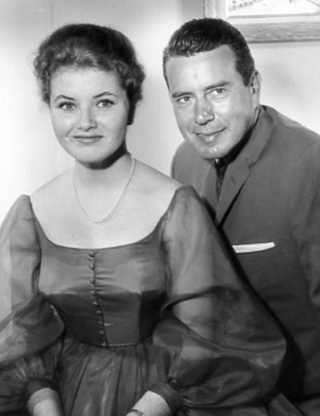 Publicity photo of Noreen Corcoran and John Forsythe from Bachelor Father.